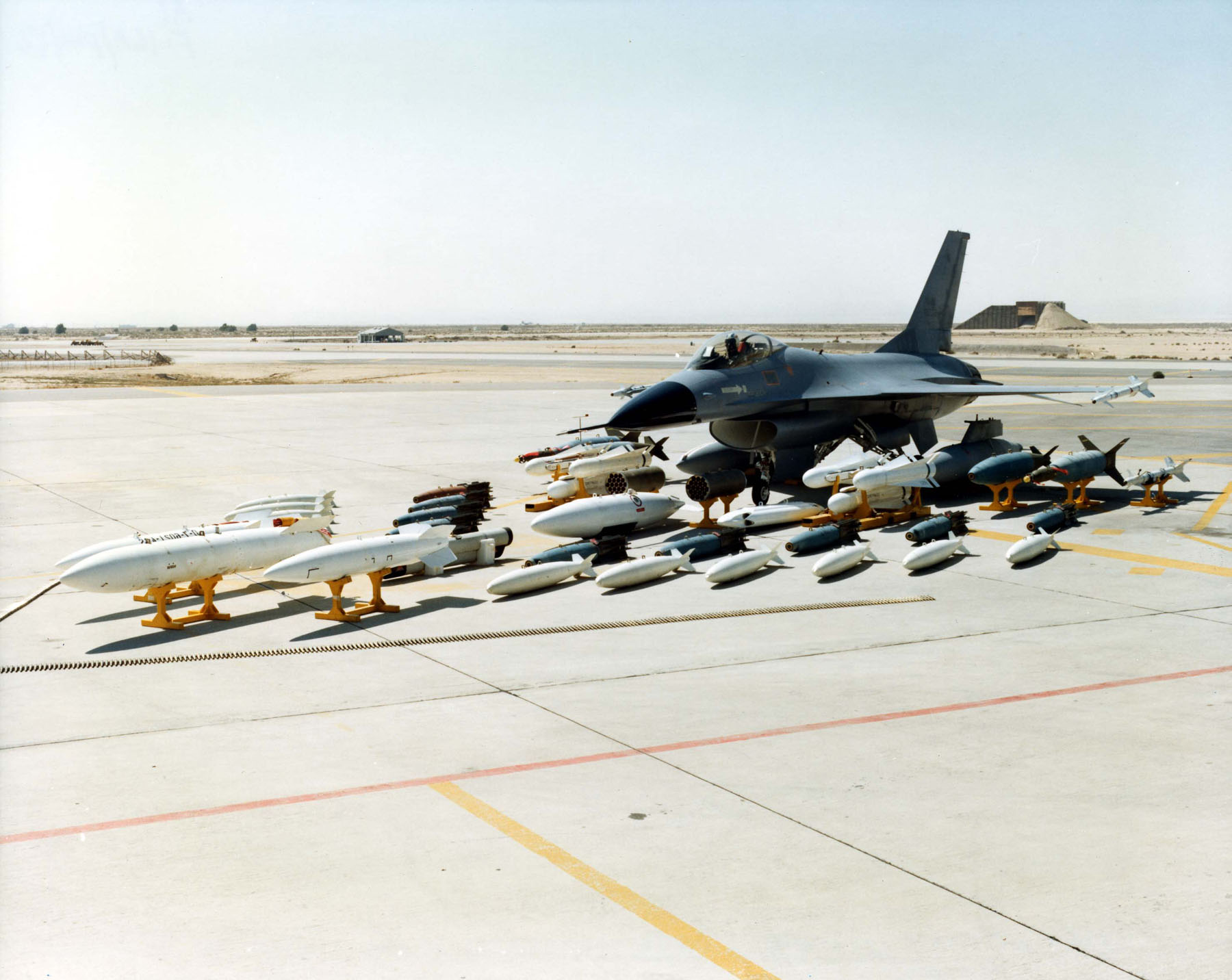 A U.S. Air Force General Dynamics F-16A with armament layout.